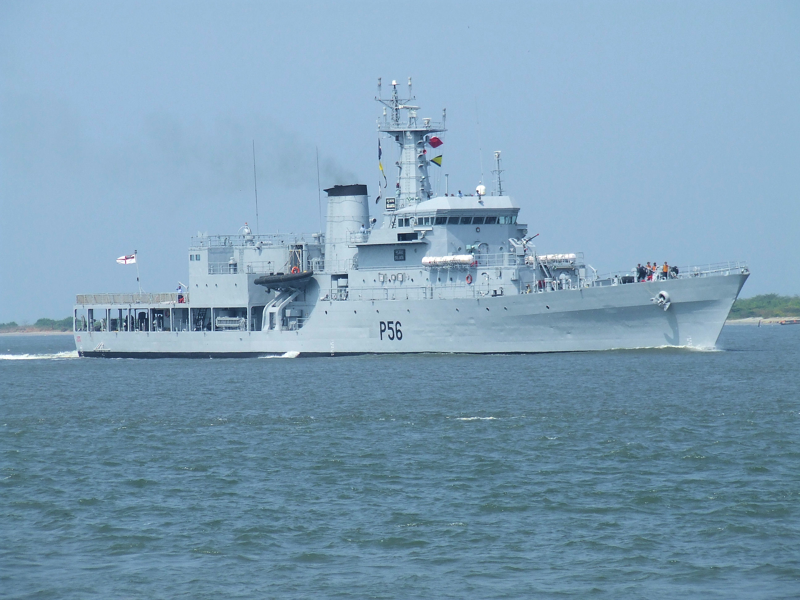 A ship of the Indian Navy that was laid Down - 16 June 1989, Launched - 23 October 1991, Commissioned - 03 November 1993. She is seen here steaming past Cochin, India.